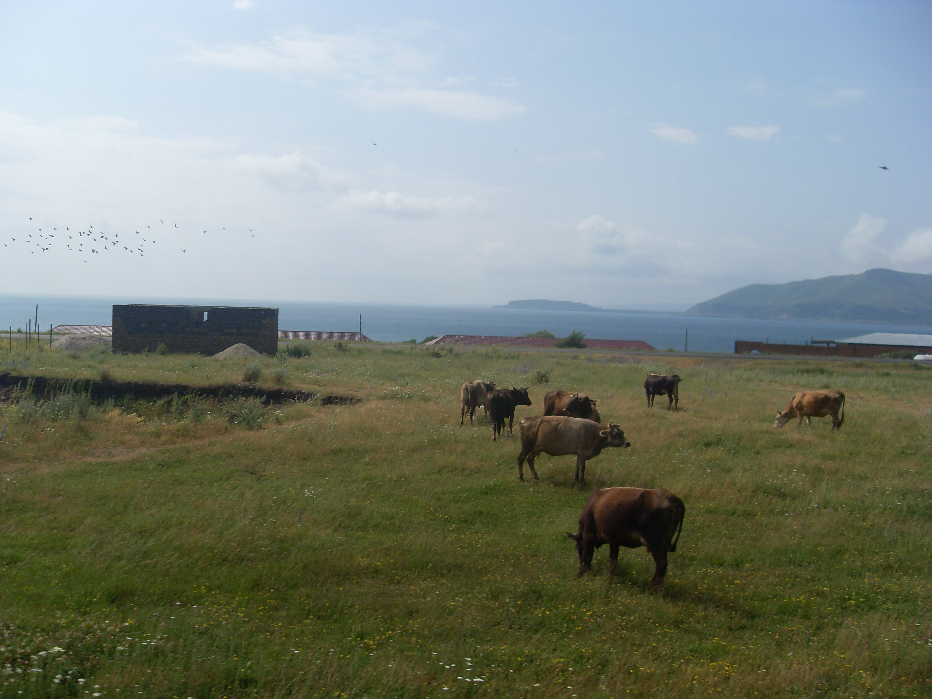 Sevan National park, Armenia